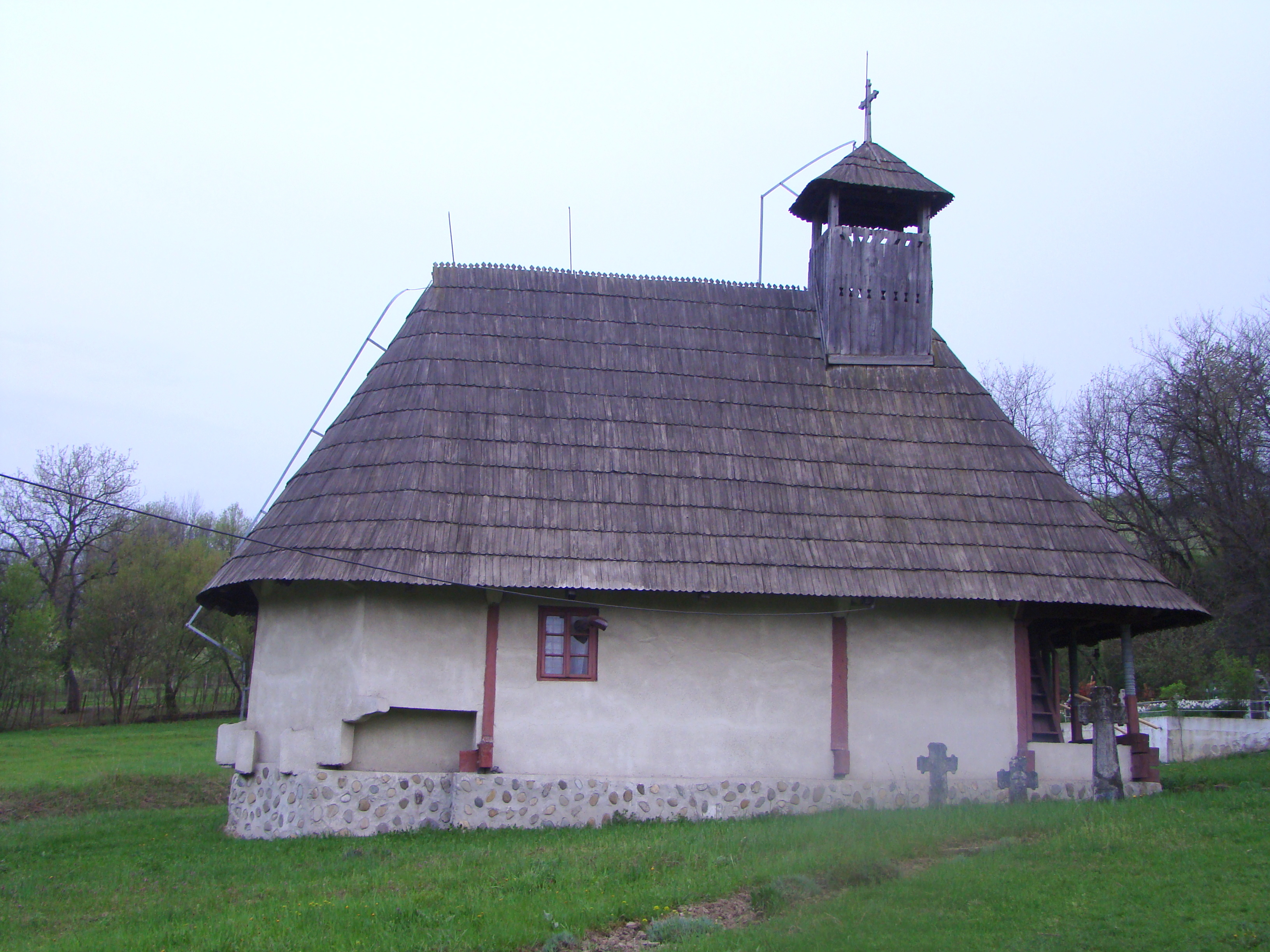 Saint Nicholas wooden church in Știucani, Gorj county, Romania